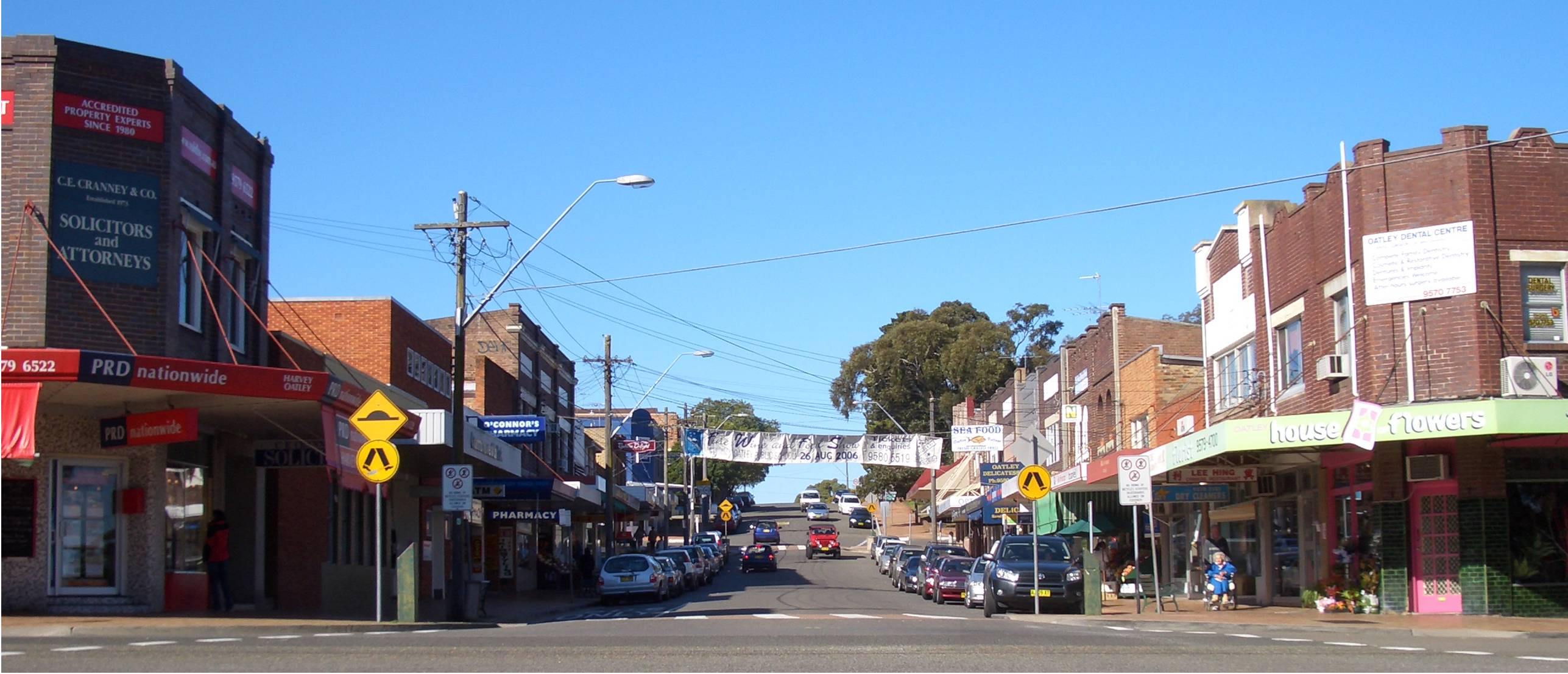 Oatley Shops, Sydney, Australia. I took this photo on the 14th August 2006. J Bar 06:25, 18 August 2006 (UTC)